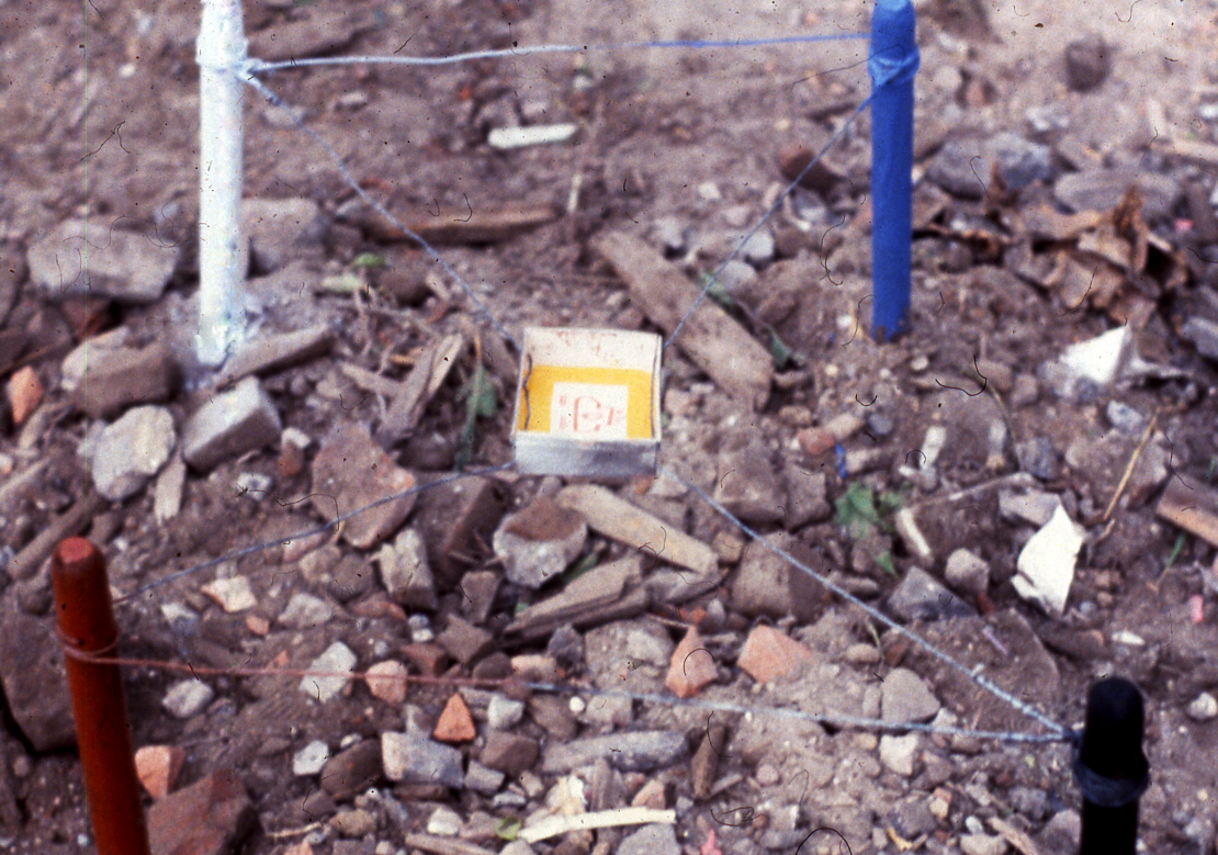 outdoor sculpture installed at Charlotte Street in the South Bronx august 1980